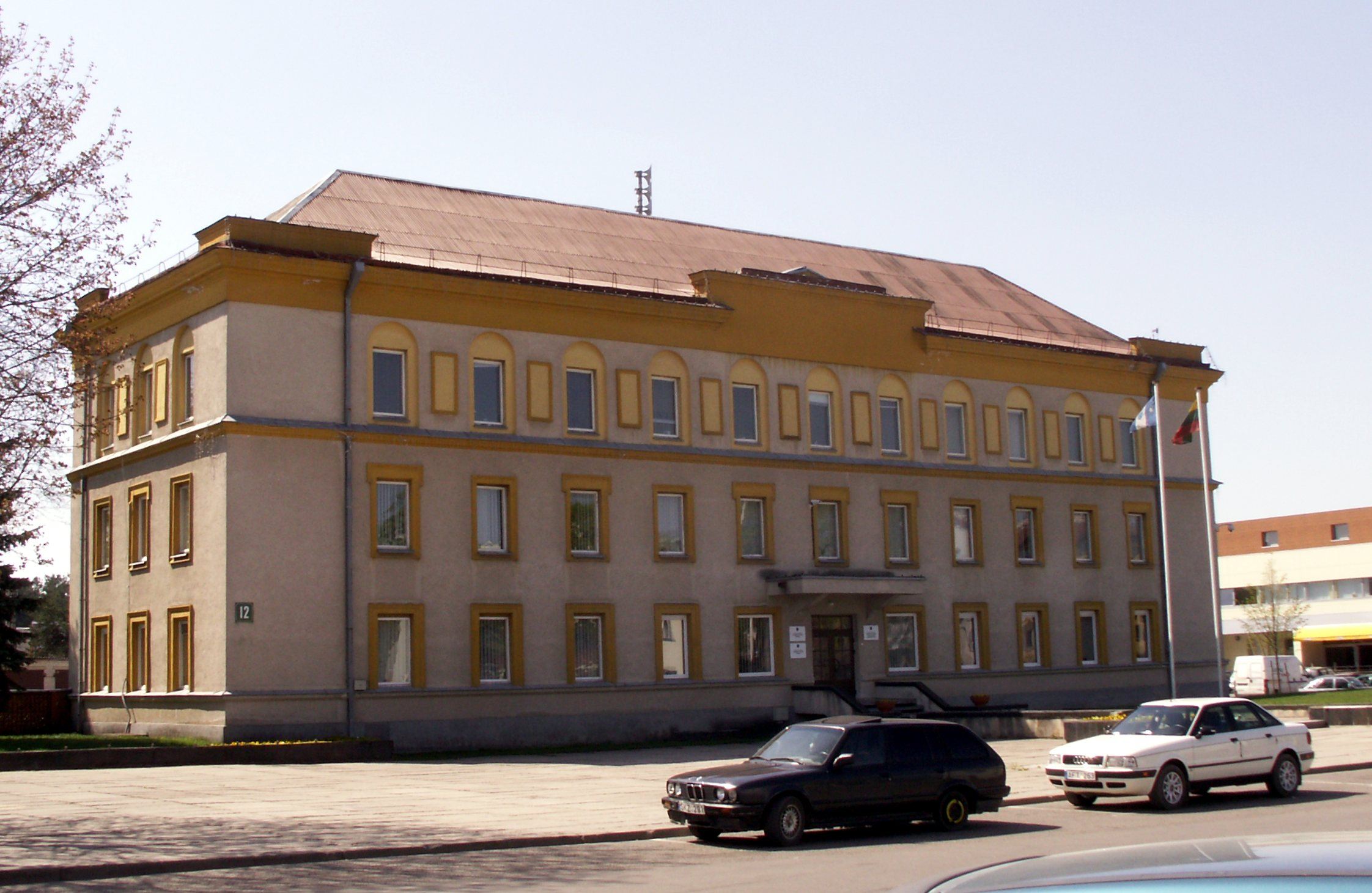 Selfgowernment of Varėna, Lithuania